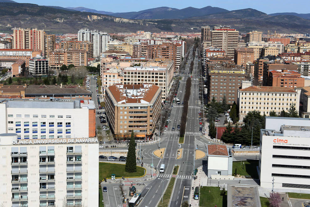 Año 2010